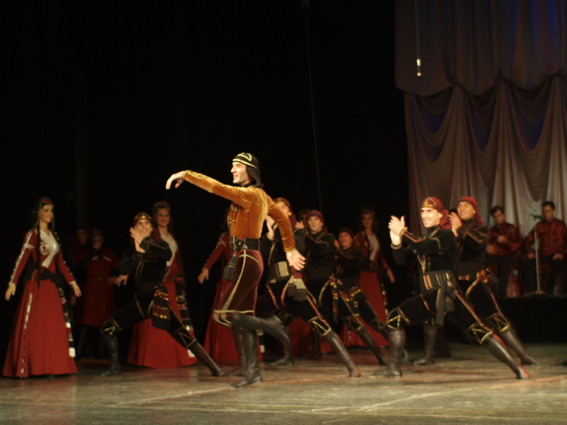 Adjarian dance in Batumi